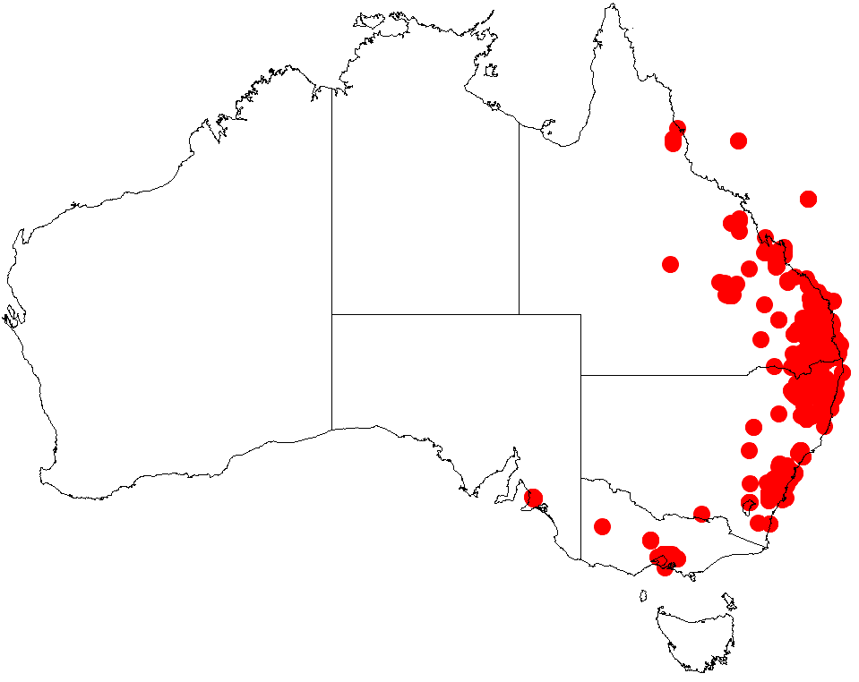 Acacia fimbriata occurrence data from Australasian Virtual Herbarium downloaded from on December 8 2018